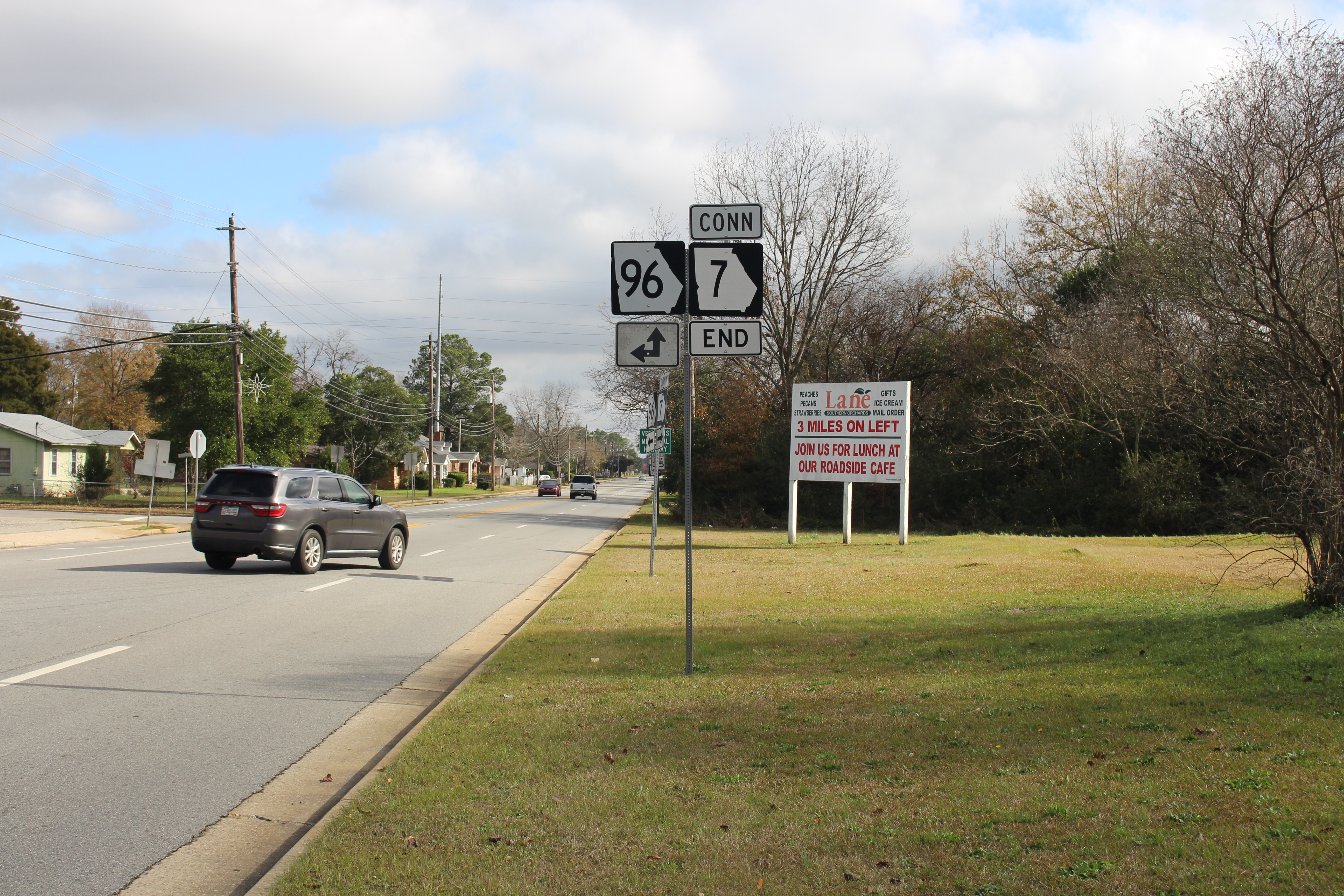 GA7 Connector EB end, Fort Valley, Peach County, Georgia